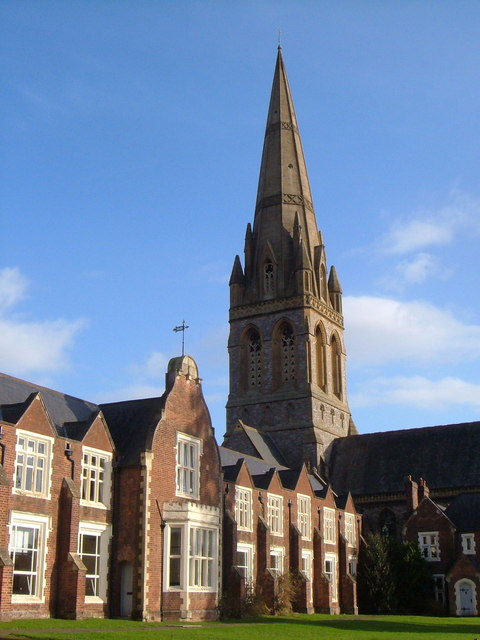 Mount Dinham House, Exeter, Devon, seen from the west, with the tower and spire of St Michael and All Angels parish church beyond. Mount Dinham House was built as a school. It is now part of Exeter College.